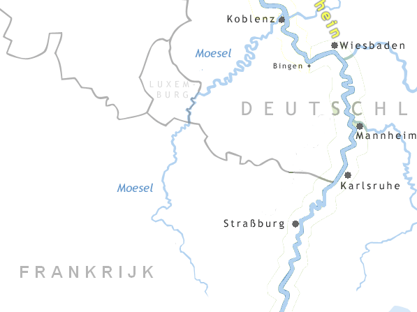 The location of the Moselle River.